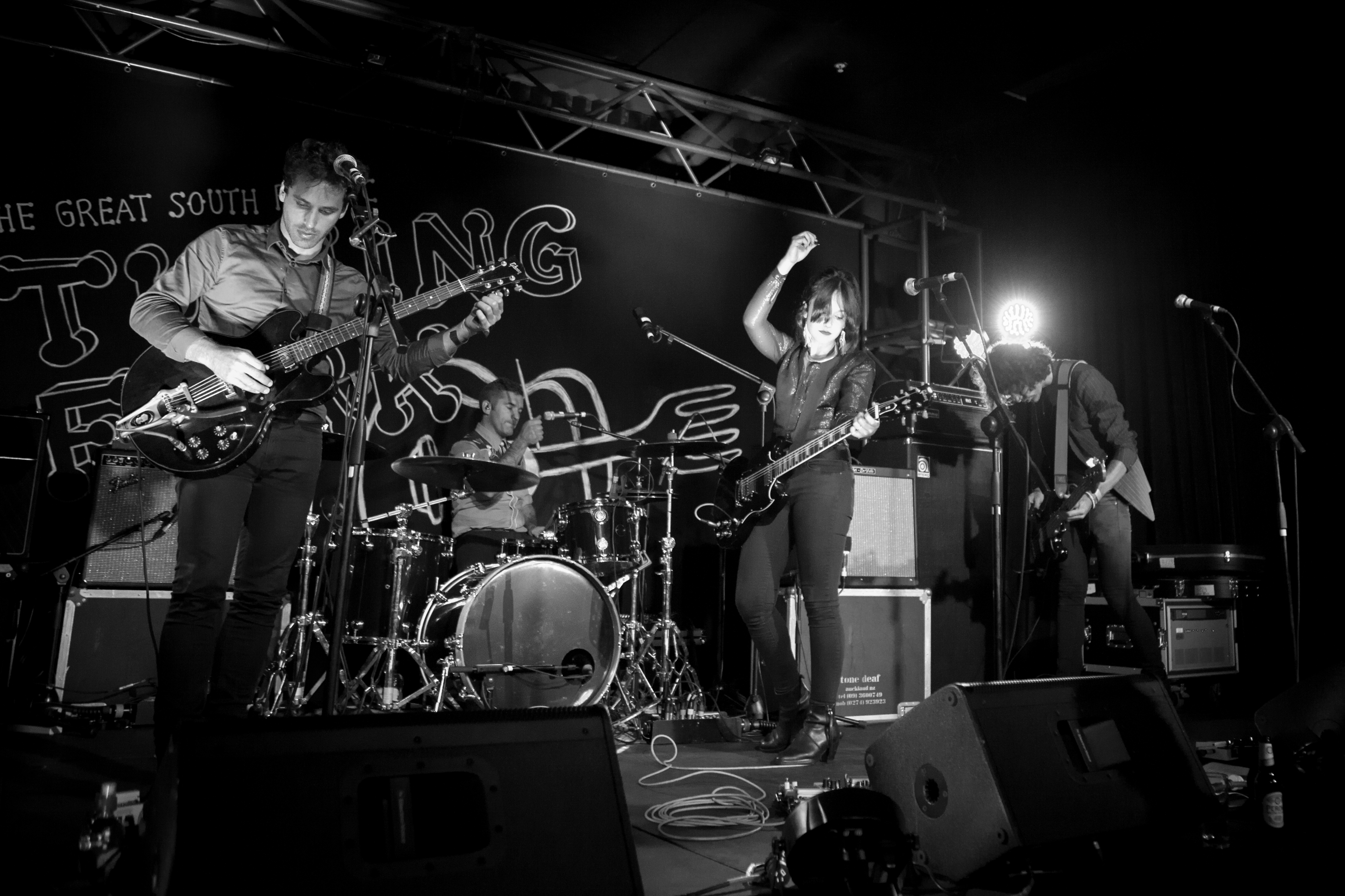 Howling Bells performing at The Tuning Fork in Auckland, New Zealand on 13 September 2014.